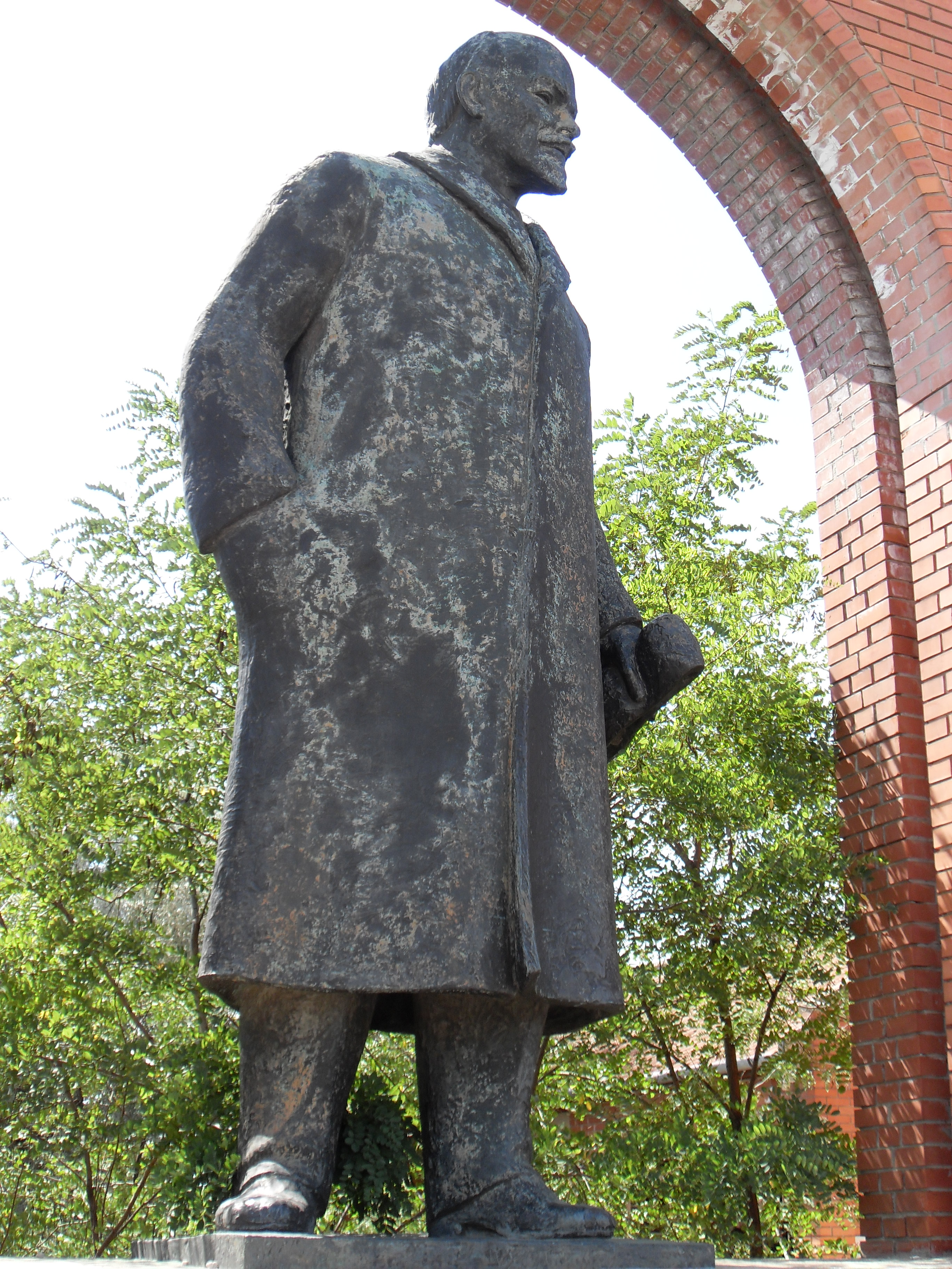 This Lenin statue originaly stood on the central street Dozsa Gyorgy of Budapest. The 4 meter high statue was removed from its place on 31 May 1989 and never returned. Today it belongs to the communist statues collection of the Memento Park.